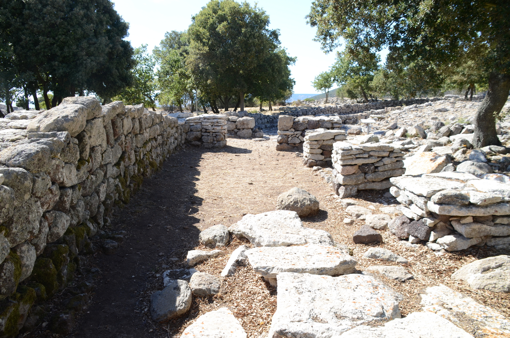 porticato